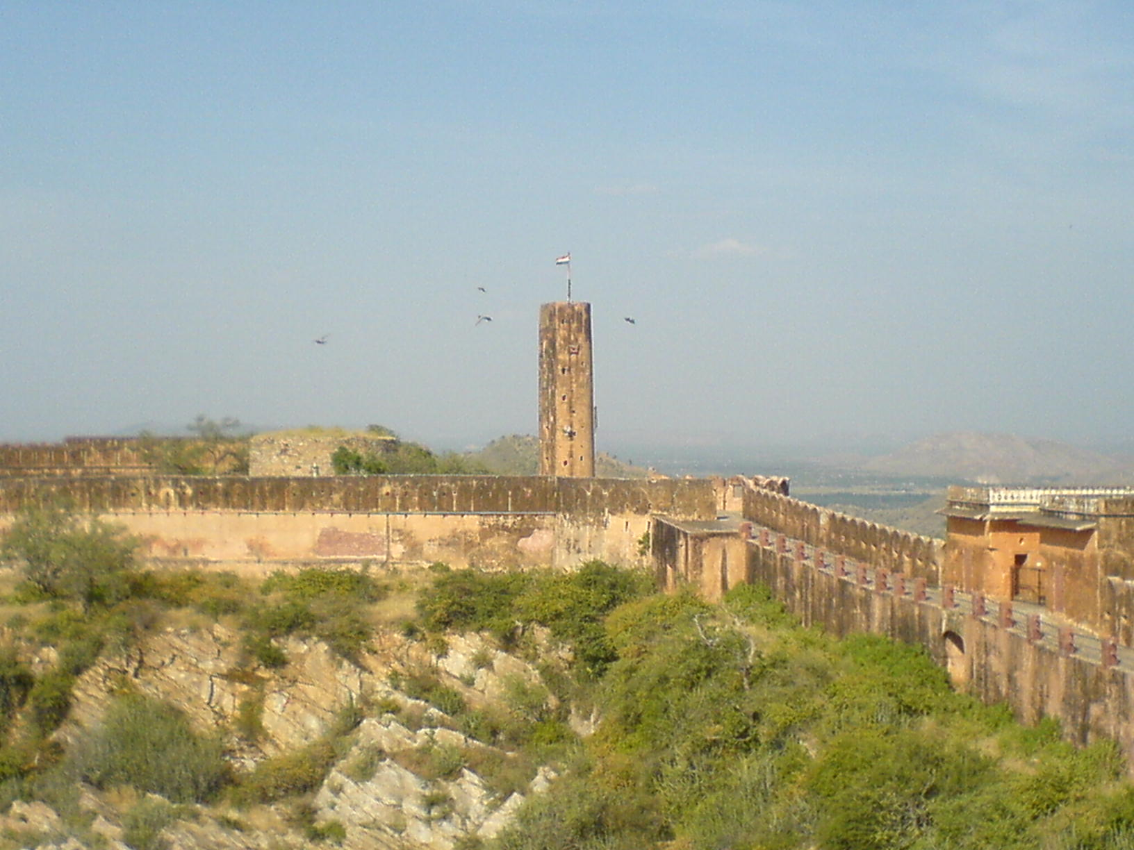 The Diya Burj (Lamp Tower) of Jaigarh Fort in Rajasthan, India.